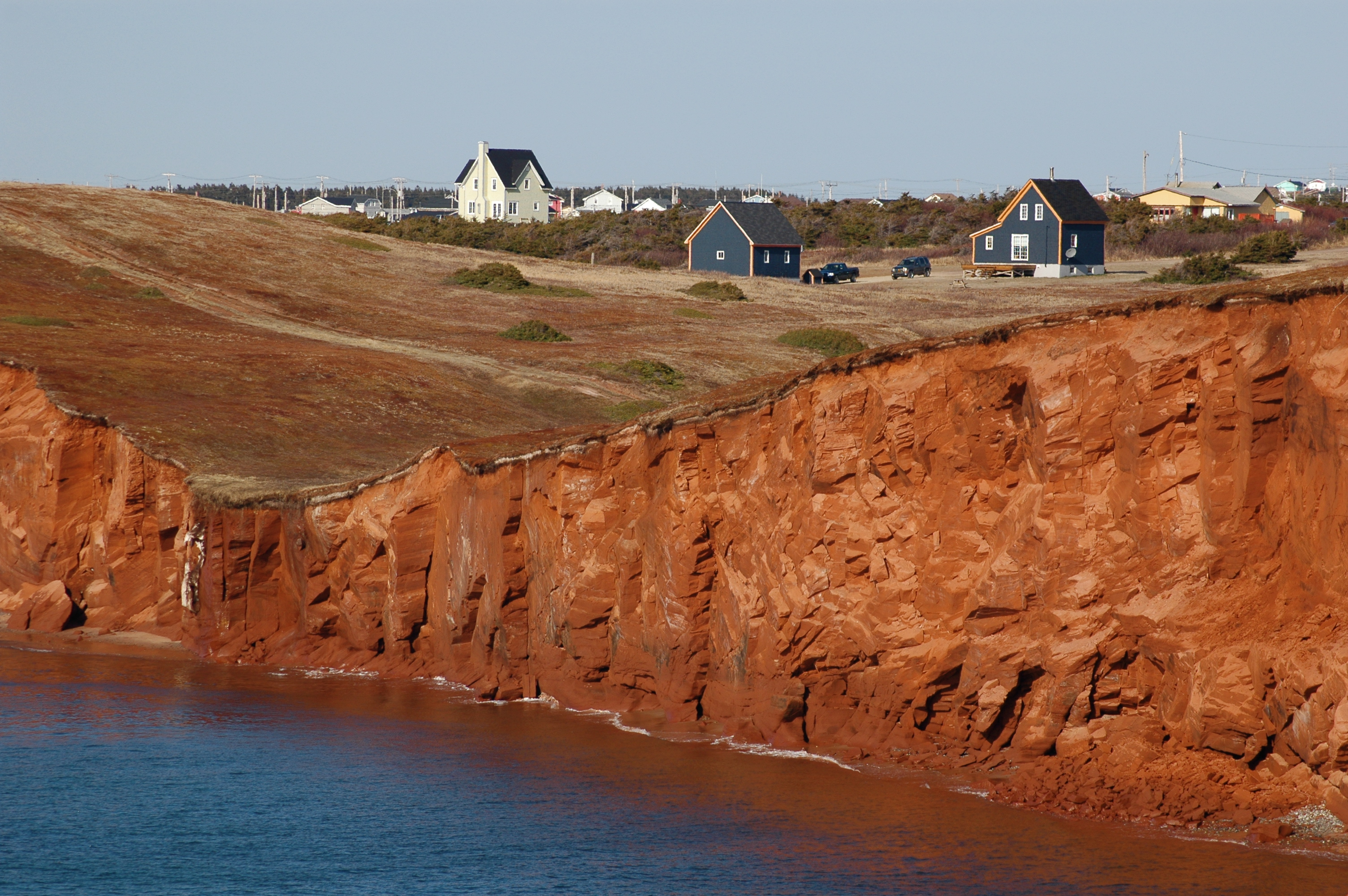 House by a typical red cliffside, Magdalen Islands (Iles de la Madeleine), Quebec, Canada.